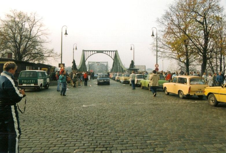 The fall of the Berlin Wall, Glienicker Brücke - November 1989